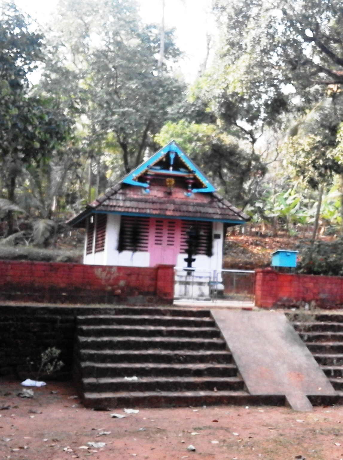 Ramanattukara, Kerala, India.